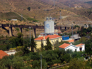 A general view of Pocinho with the railway bridge over the Douro.